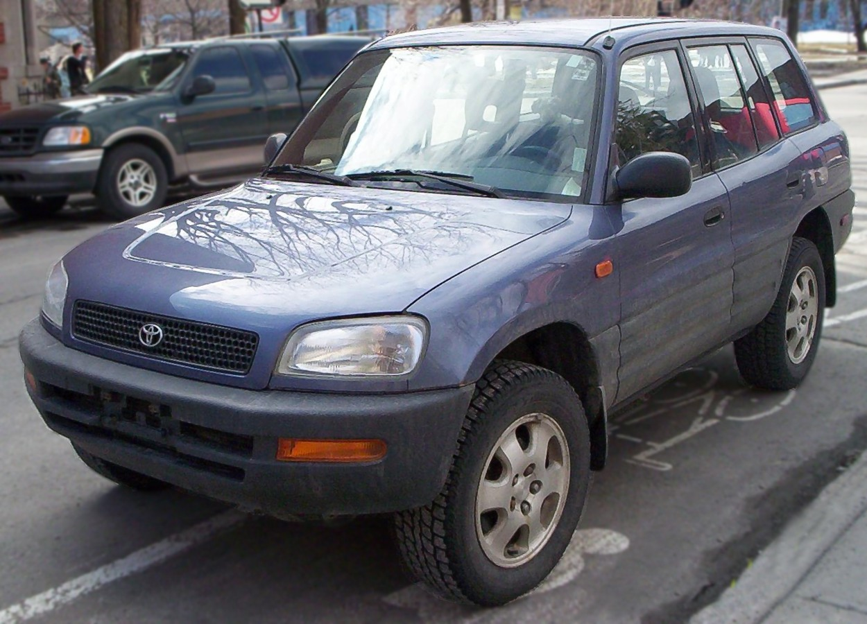 1996-1998 Toyota RAV4 photographed in in Montreal, Quebec, Canada.